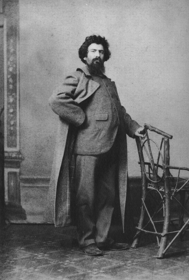 Giovanni Segantini, ca. 1890, photographer unknown